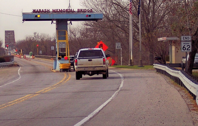 Western terminus of Indiana State Road 62 at the Wabash Memorial Bridge in Posey County.